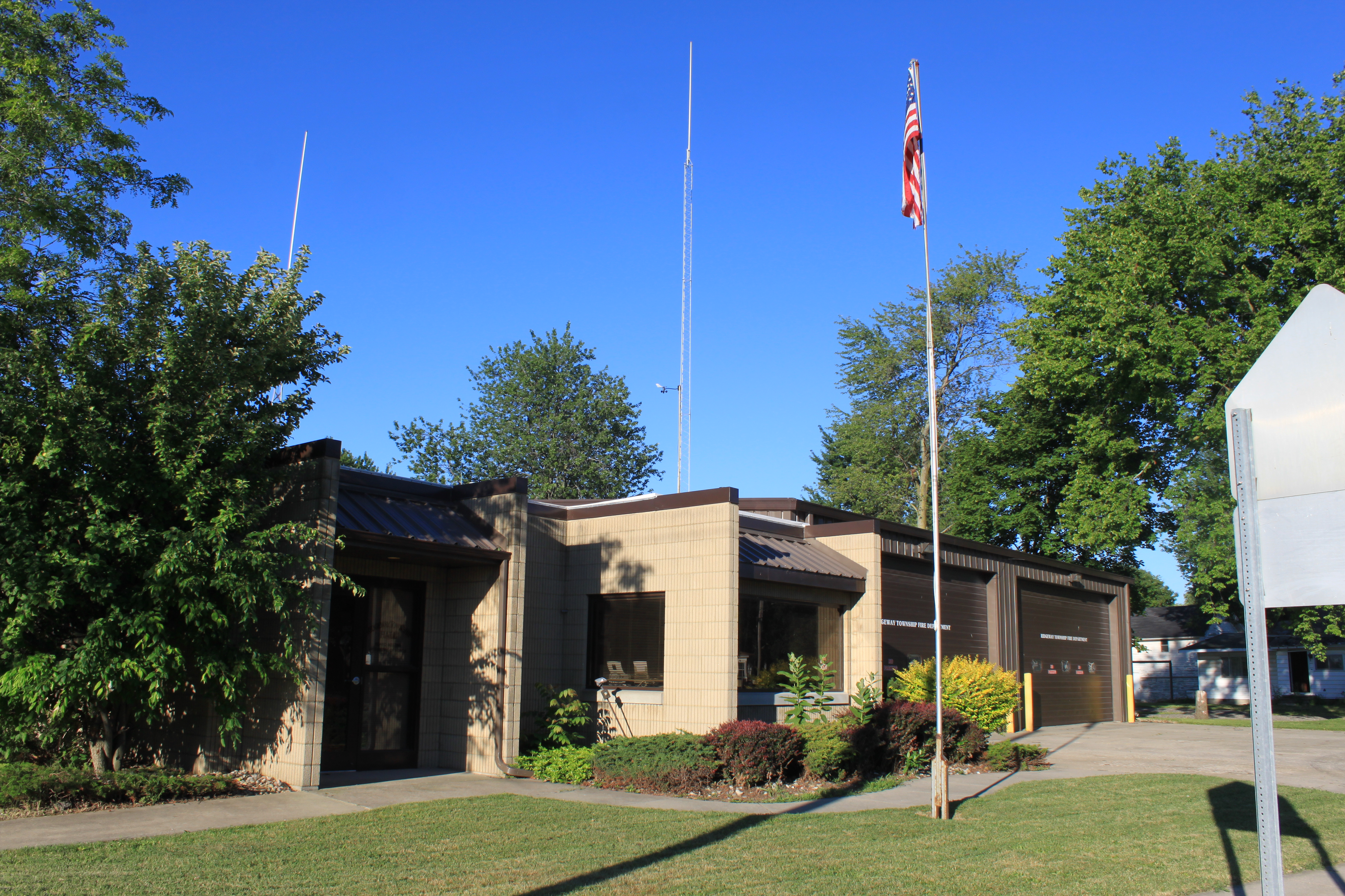 Ridgeway Township Michigan, Township Hall and Fire Department, 103 E. Chicago Boulevard, Britton